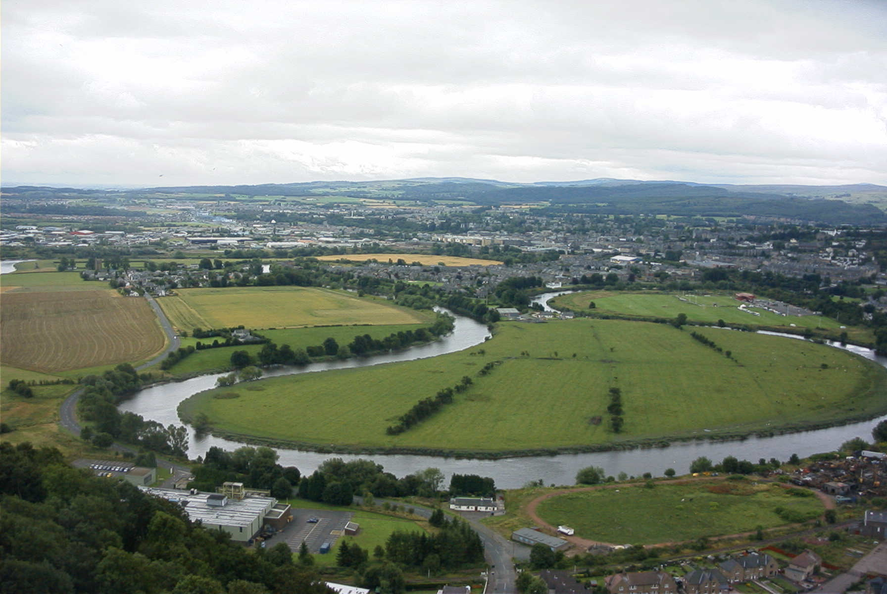 Photograph by Alan Campbell.